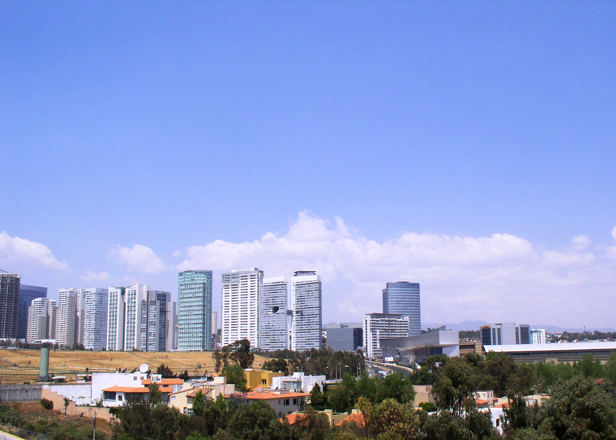 A view from the Sante Fe campus of Technologico De Monterrey. Santa Fe is located in the west side of Mexico City.